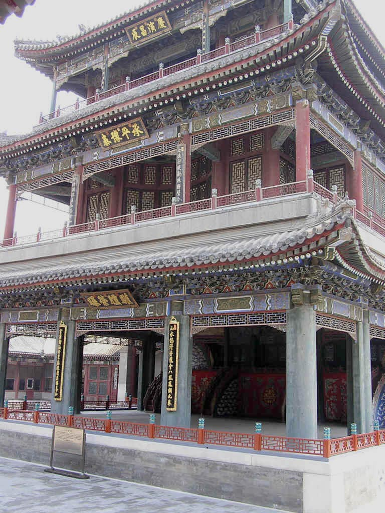 Summer Palace Opera Stage adjusted for improved image. Original is thumb|200px|Original (thumb) Click to see full size Text from that page: Photo of the Chinese Opera stage in the Summer Palace near Beijing where the Chinese royal family, more specifically the Empress Dowager Cixi, watched the shows. This theater is practically a duplicate of the one in the Forbidden City. Photo taken Richard Chambers, AAA Yangtze Sampler tour May 2004. This photo was taken standing on the porch of the room where the Empress Dowager watched the shows. Original posted by User:Richardelainechambers Modified by User:Leonard G.